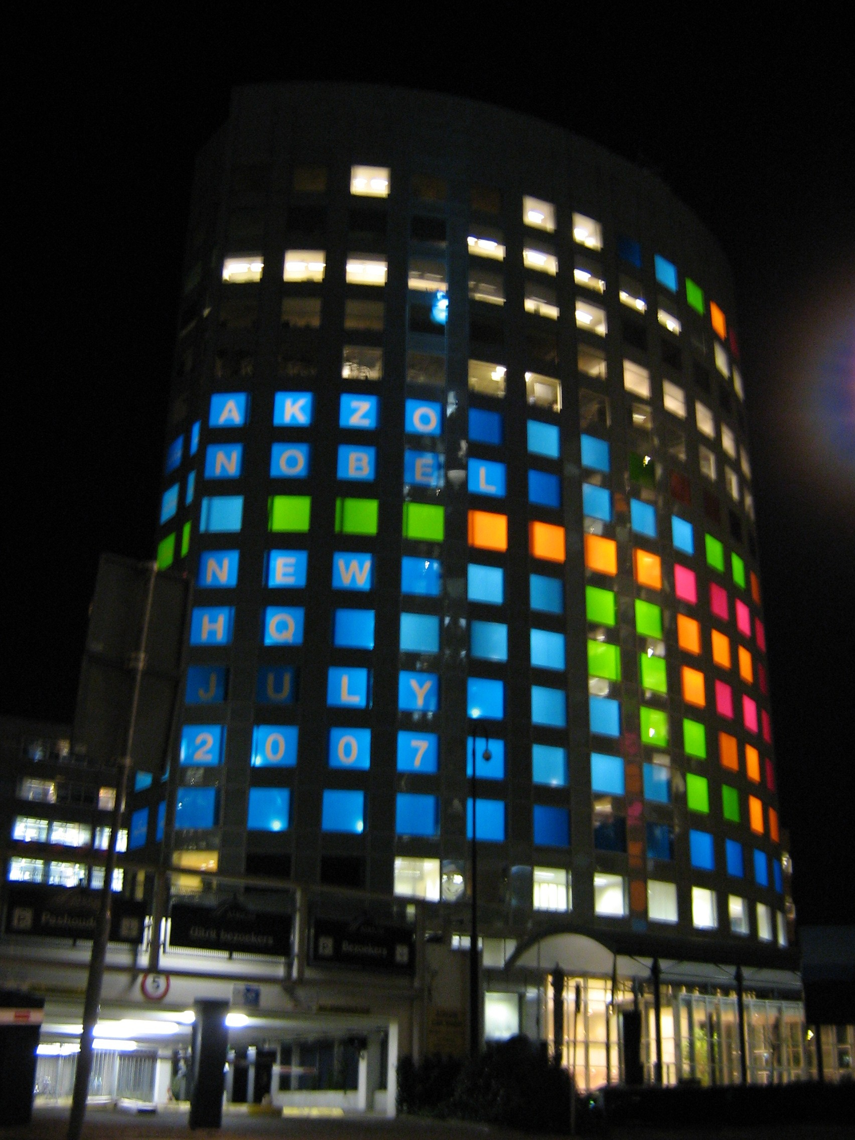 In January 2007, multinational AkzoNobel announced that it would move its headquarters from Arnhem to Amsterdam. It will move into the building shown in July 2007 (as indicated by the letters), but this will be temporary; the company announced its intention to move into another, new building once that has been constructed. The temporary office shown is just west of the Amsterdam World Trade Center, the new (since 2017) stands east of WTC.